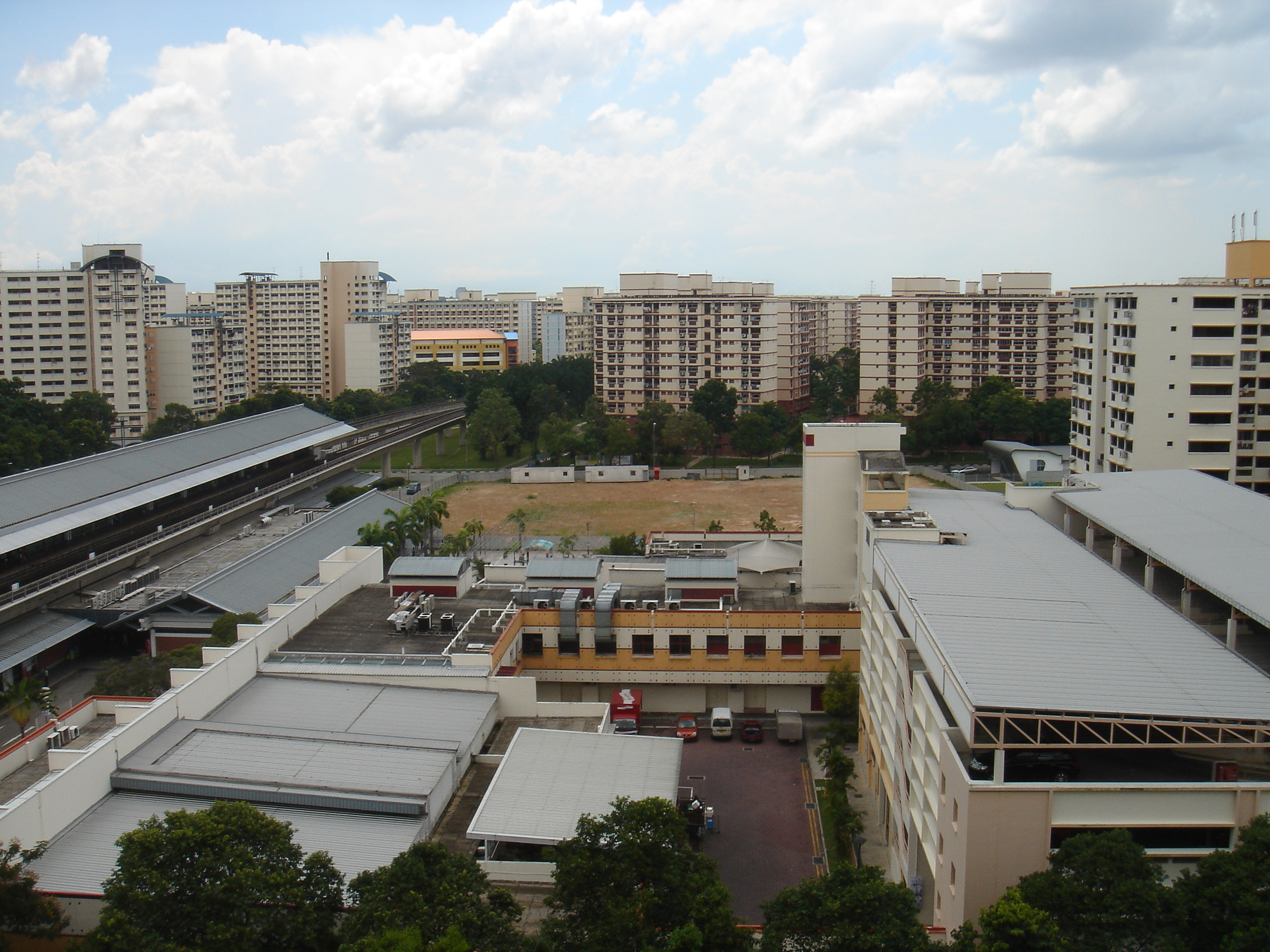 Aerial view of Yew Tee Town Center, Yew Tee, Singapore.